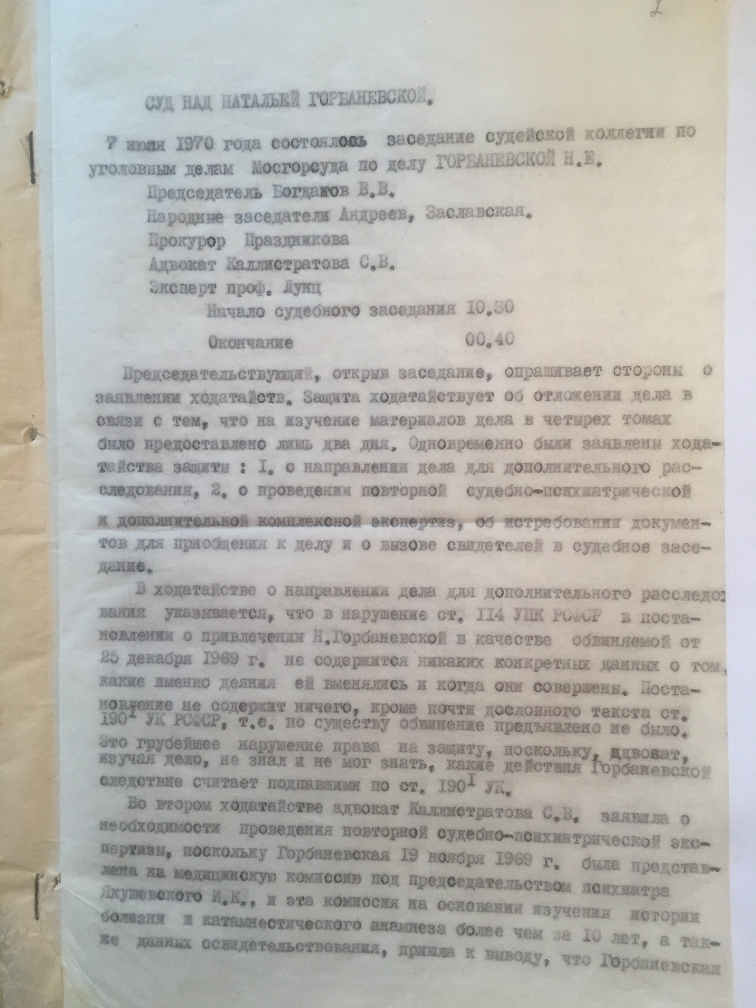 Typewritten copy of the Russian samizdat human rights periodical periodical A Chronicle of Current Events. Issue No 15, dated 31 August 1970. Page on the 1970 trial of first editor Natalya Gorbanevskaya. Moscow.